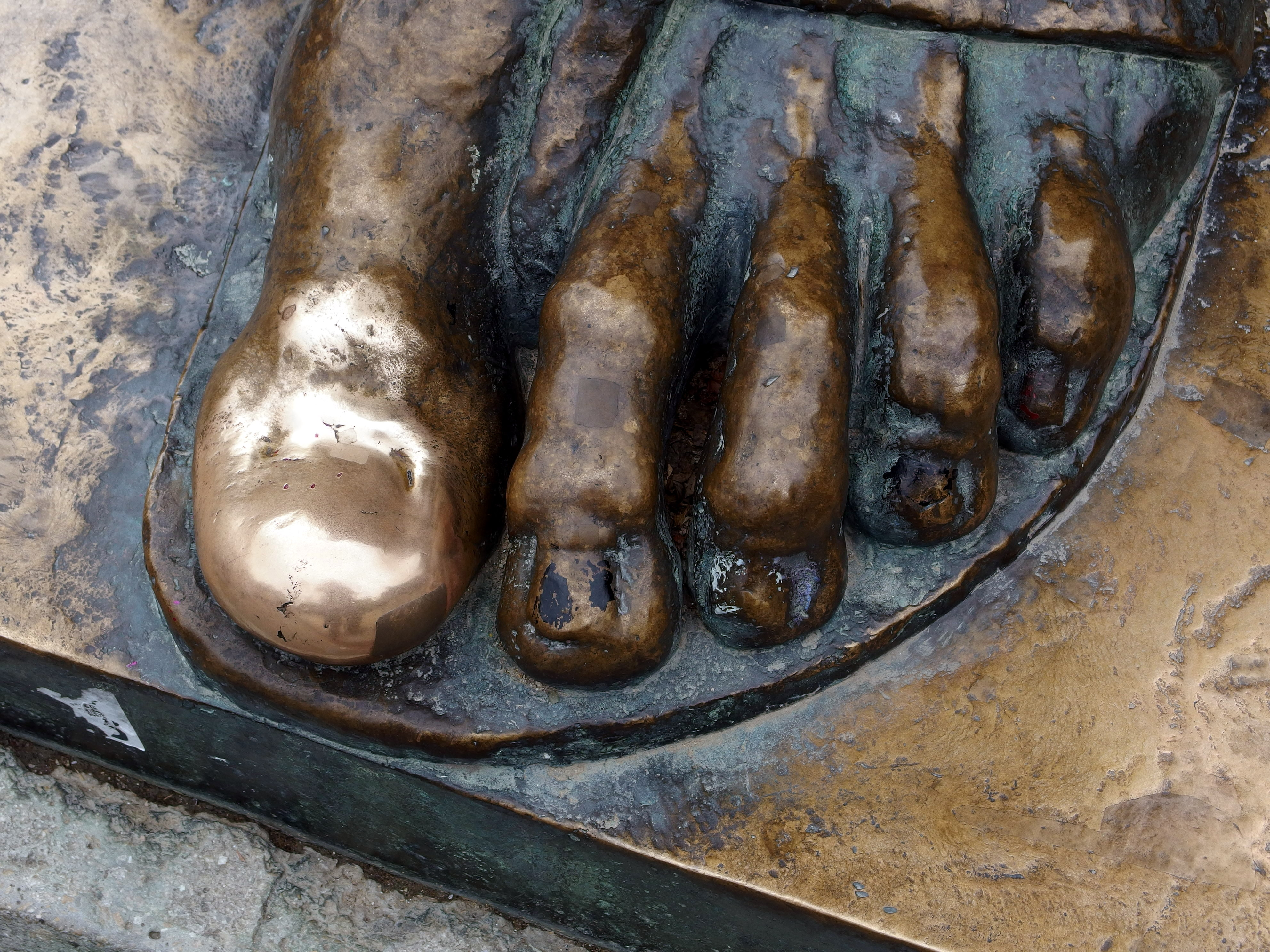 2013-06-03 in Split.